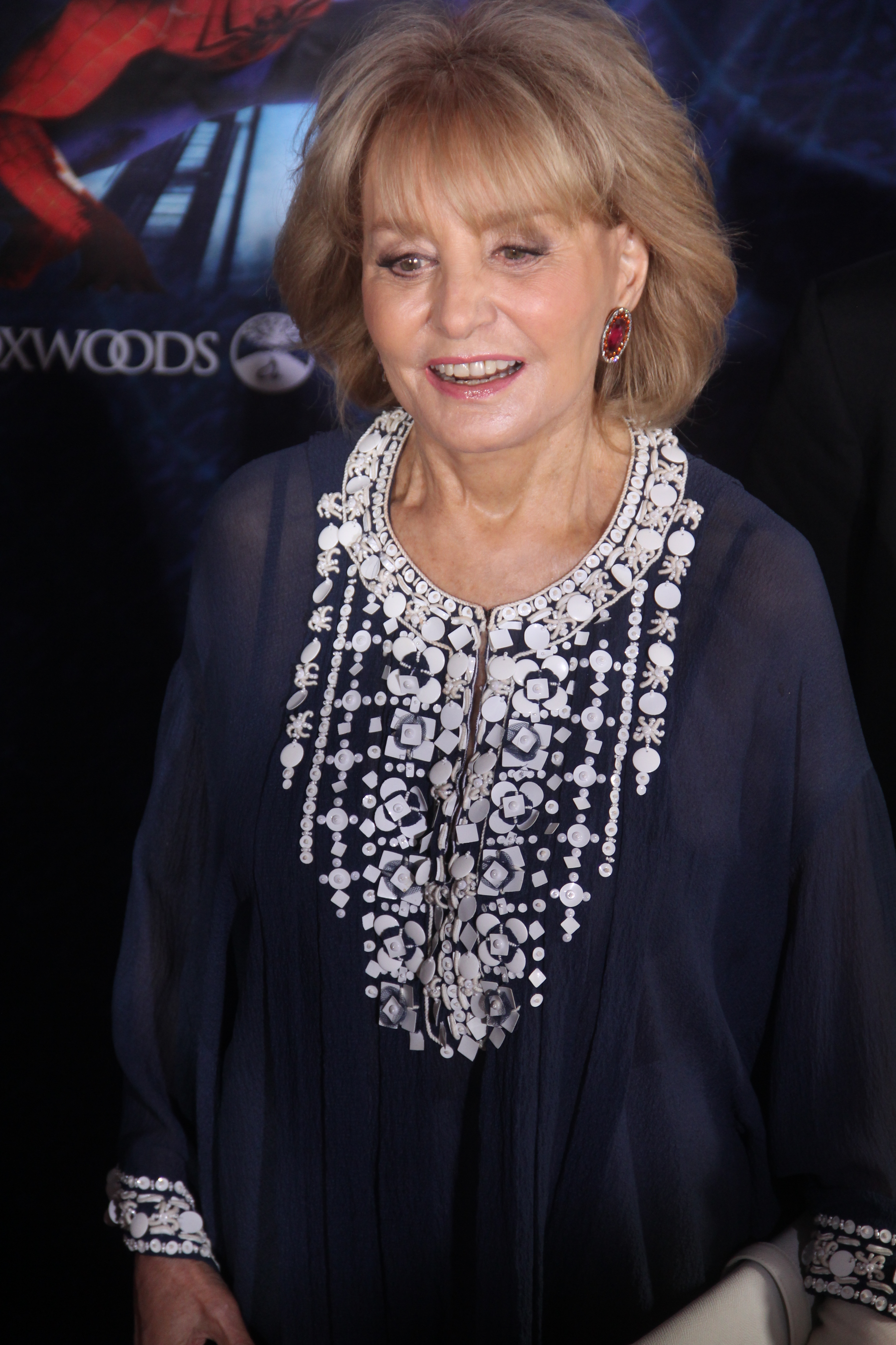 Spiderman: Turn Off the Dark Opening June 14th 2011 Foxwoods Theatre, New York City